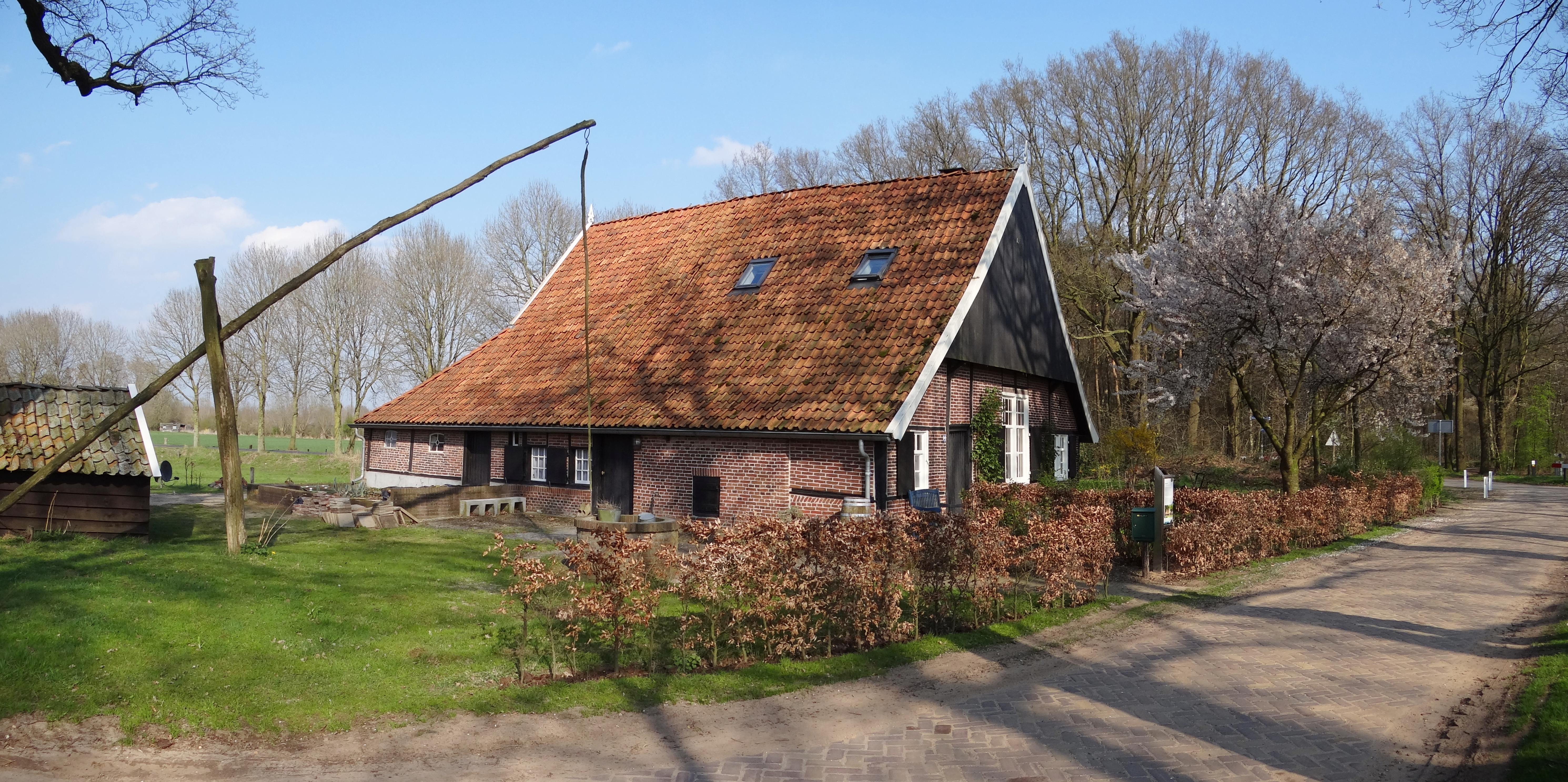 Saxon farmhouse Eskes at the Haart, Bredevoort, Netherlands